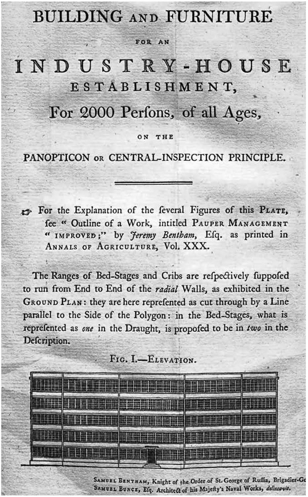 One page of Jeremy Bentham's 1812 writing "Pauper management improved: particularly by means of an application of the Panopticon principle of construction", he included a building for an "industry-house establishment" that could hold 2000 persons.